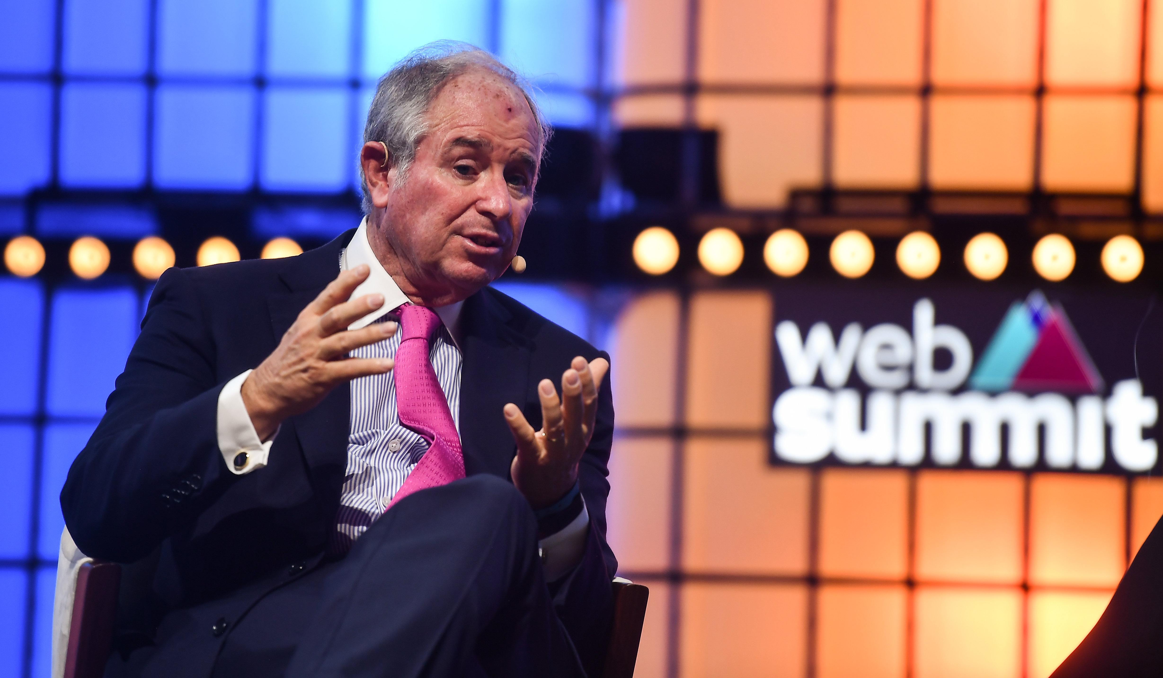 5 November 2019; Stephen Schwarzman, Co-founder, Chairman & CEO, Blackstone, on Centre Stage during the opening day of Web Summit 2019 at the Altice Arena in Lisbon, Portugal. Photo by David Fitzgerald/Web Summit via Sportsfile